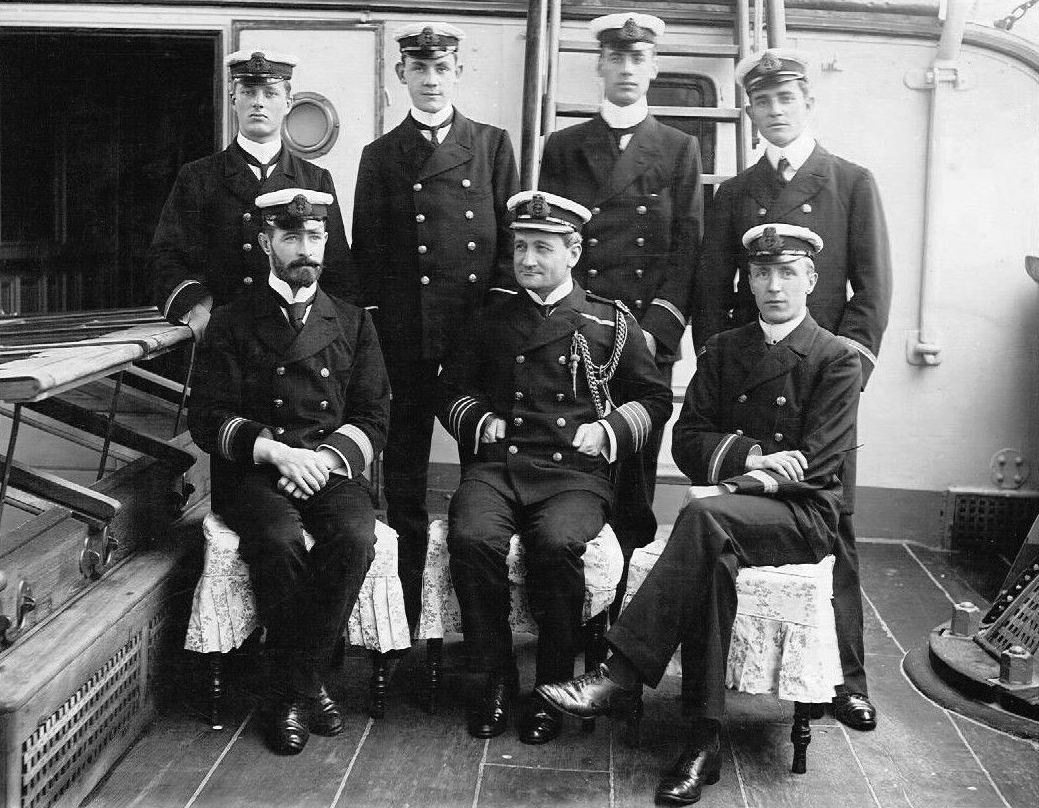 Admiral Sir Cyprian Bridge (centre), with his staff in 1902, during his position as Commander-in-Chief of the China Station between 1901 and 1904.